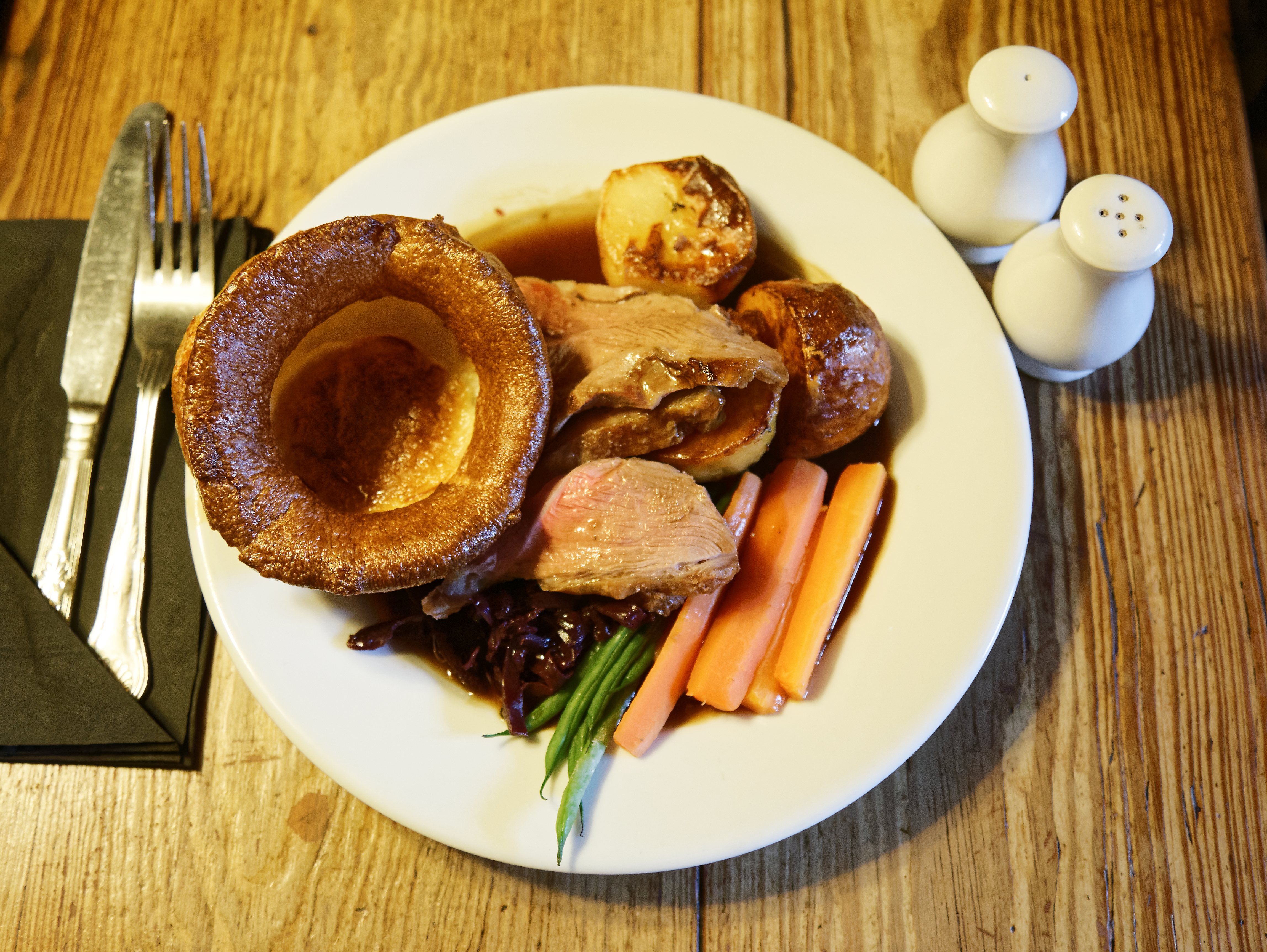 A dinner first course of roast lamb, roast potatoes, green beans, carrot and Yorkshire pudding with gravy, at the Black Horse Inn on Nuthurst Street in Nuthurst, West Sussex, England.Software: RAW file lens-corrected, optimized and converted to JPEG with DxO OpticsPro 10 Elite, and likely further optimized and/or cropped and/or spun with Adobe Photoshop CS2.